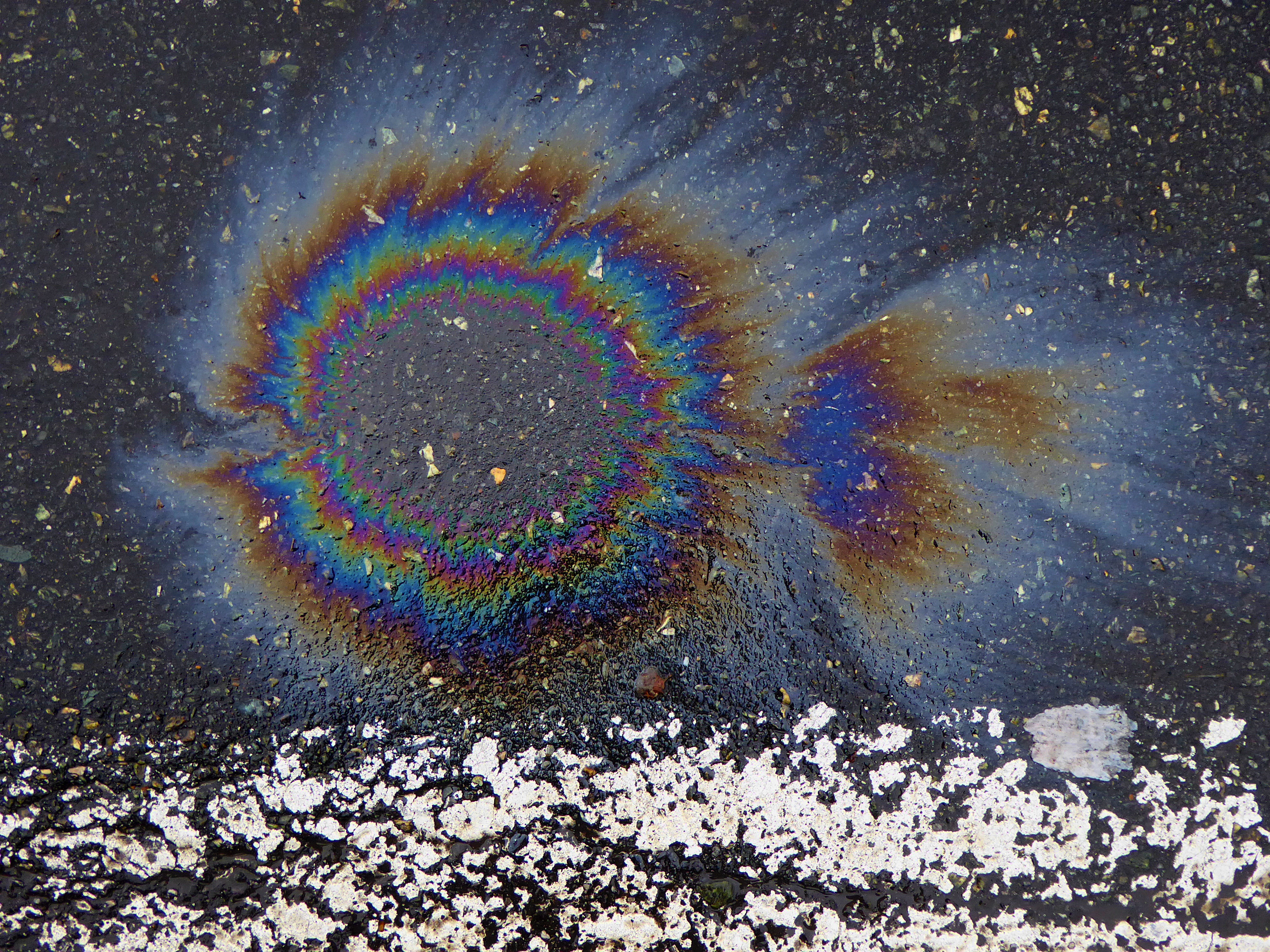 Thin film effect of diesel fuel spreading on wet road asphalt. White light is partly reflected and partly refracted by the air-fuel and the same by the fuel-water surface. For a given film thickness only some wavelenght emerge in phase and we can see the color. The film thins from the center so we can see arcs of different colors. (Thin-film_interference)